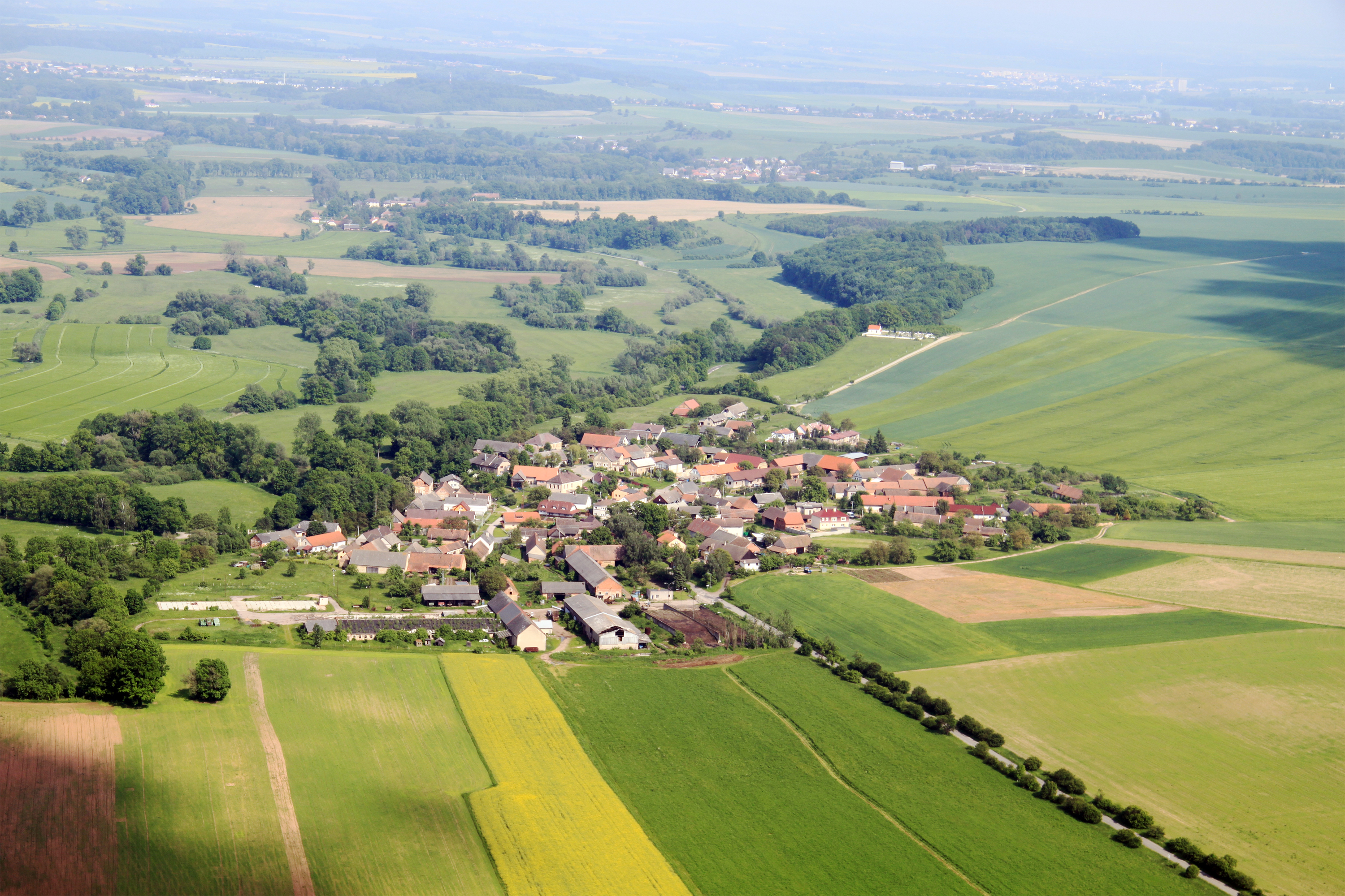 Village Šestajovice near of town Jaroměř from air, eastern Bohemia, Czech Republic